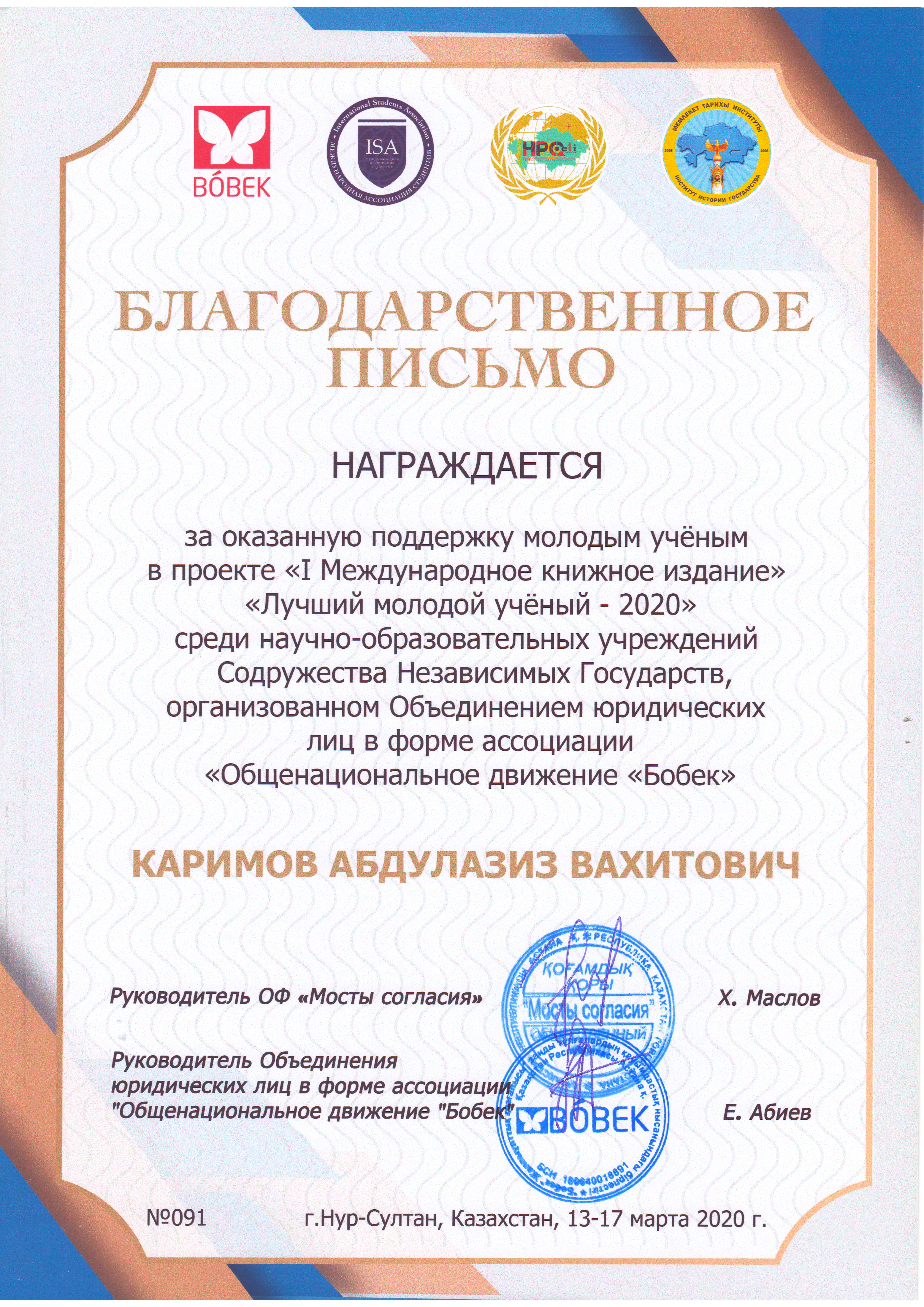 Letter of thanks to Karimov Abdulaziz Vakhitovich awarded for the support to young scientists in the project "Best Young Scientist 2020" among scientific and research institutions of the Commonwealth of Independent States